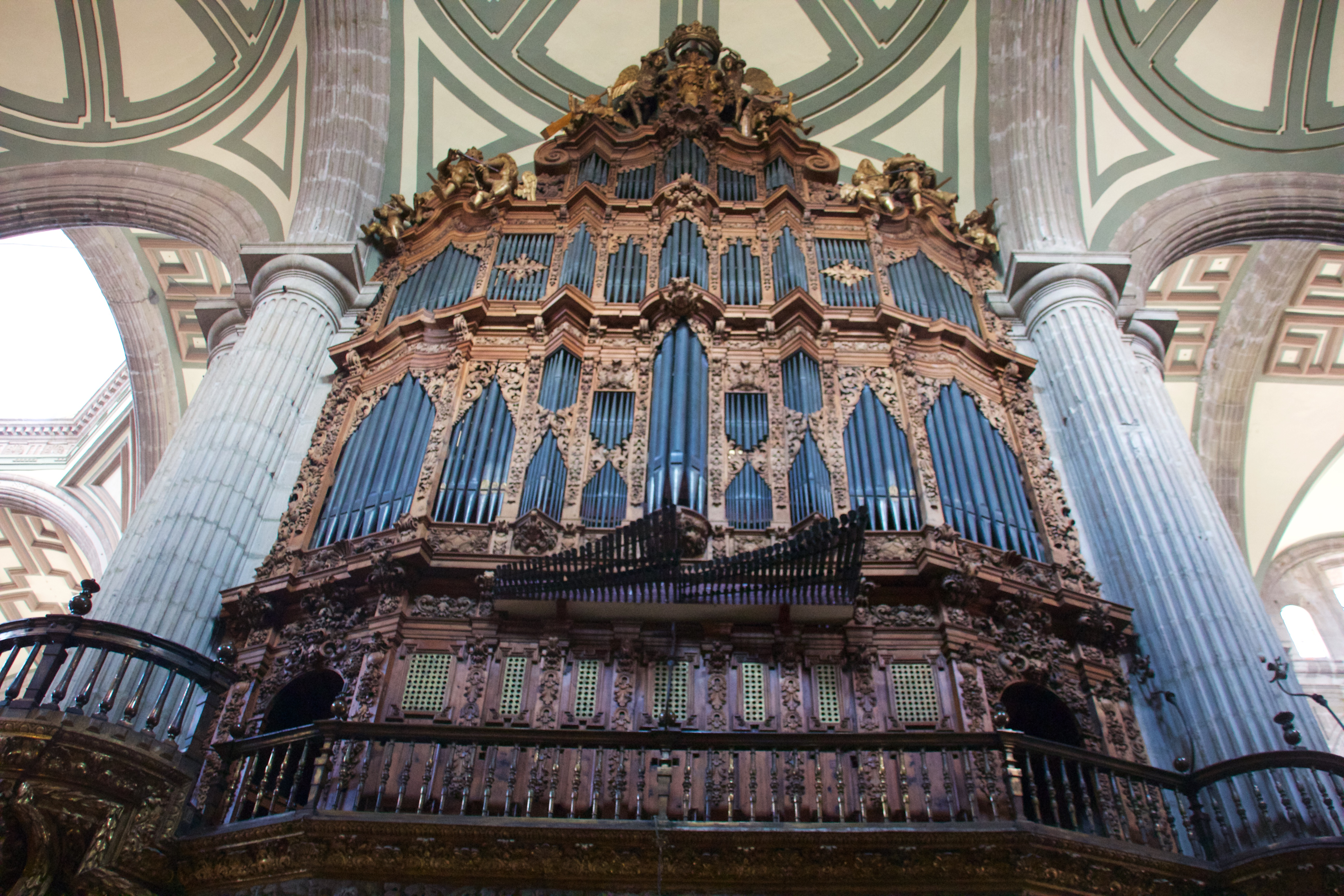 Metropolitan Cathedral of Mexico City, Mexico City, Mexico.